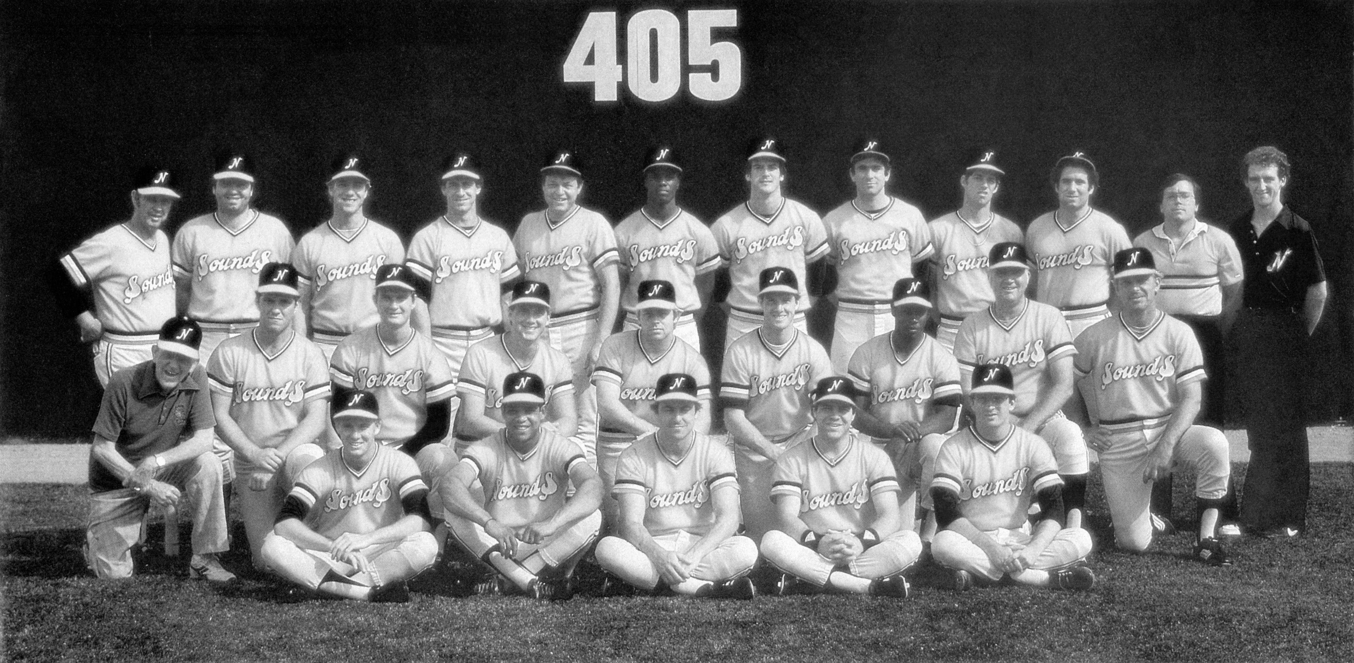 The 1983 Nashville Sounds Minor League Baseball team of the Southern League. Front row, left to right: Kelly Scott, Victor Mata, Erik peterson, Matt Gallagos, Chuck Tomaselli; Second row, left to right: Equipment Manager Rags Drennon, Dave Szymczak, Ed Olwine, Mark Shifflett, Buck Showalter, Scott Bradley, Tim Knight, Hitting Coach Jim Saul, Manager Doug Holmquist; Third row, left to right: Pitching Coach Hoyt Wilhelm, Frank Kneuer, Mike Reddish, Mike Pagliarulo, Mike Browning, Derwin McNealy, Tim Burke, Mark Silva, Keith Smith, Pete Dalena, Trainer Paul Grayner, Clubhouse Manager Brian Fletcher